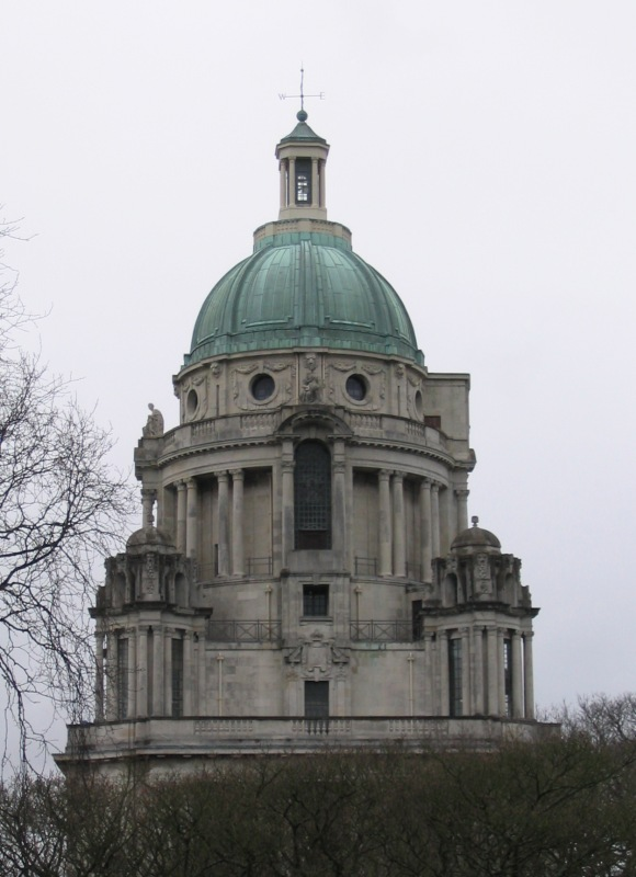 Upper levels of the Ashton Memorial, exterior